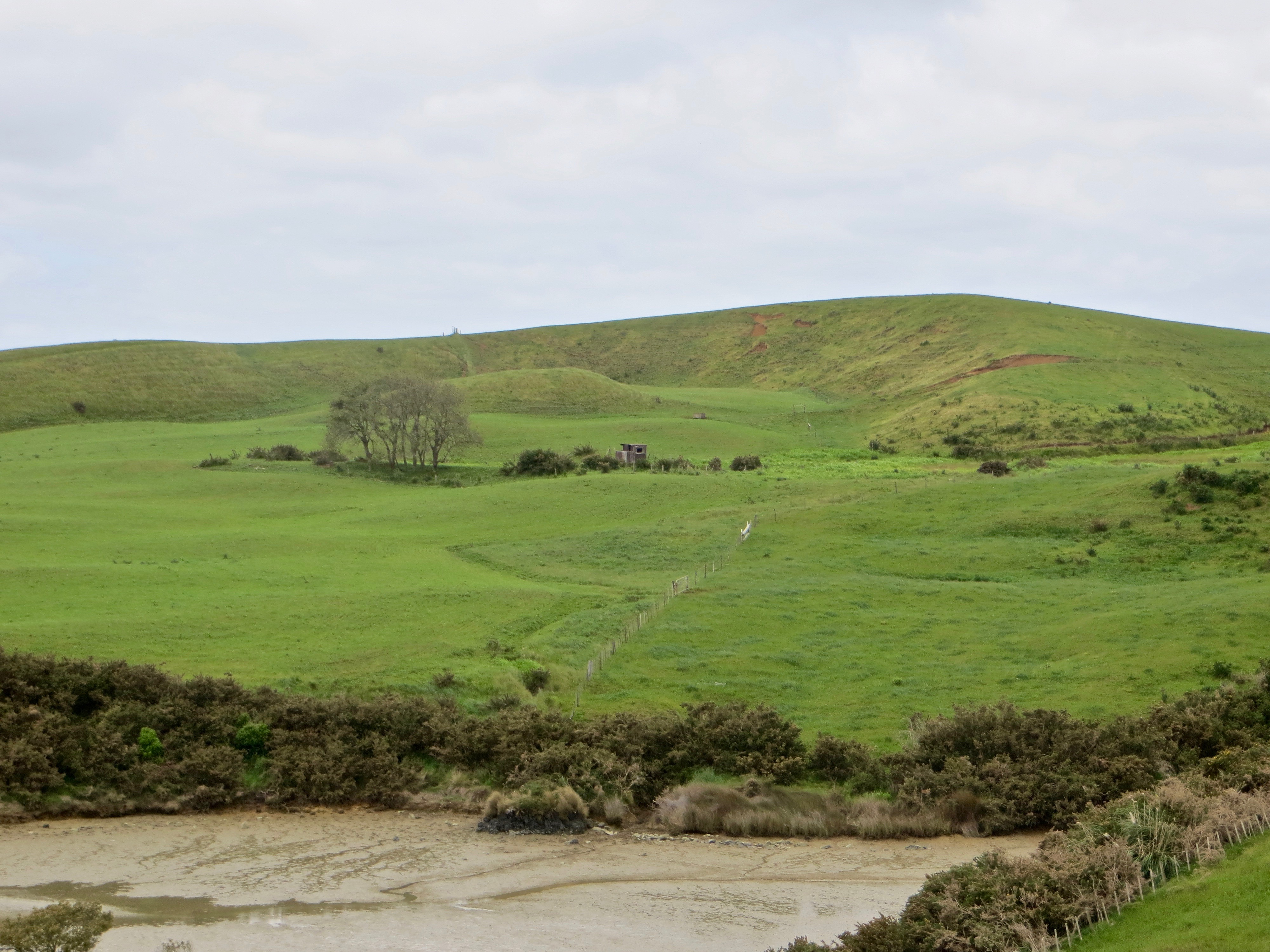 Waitetuna Redoubt was built to the south of the Narrows, as part of Colonel Richard Waddy’s supply route to the Waipa set up at the end of December 1863